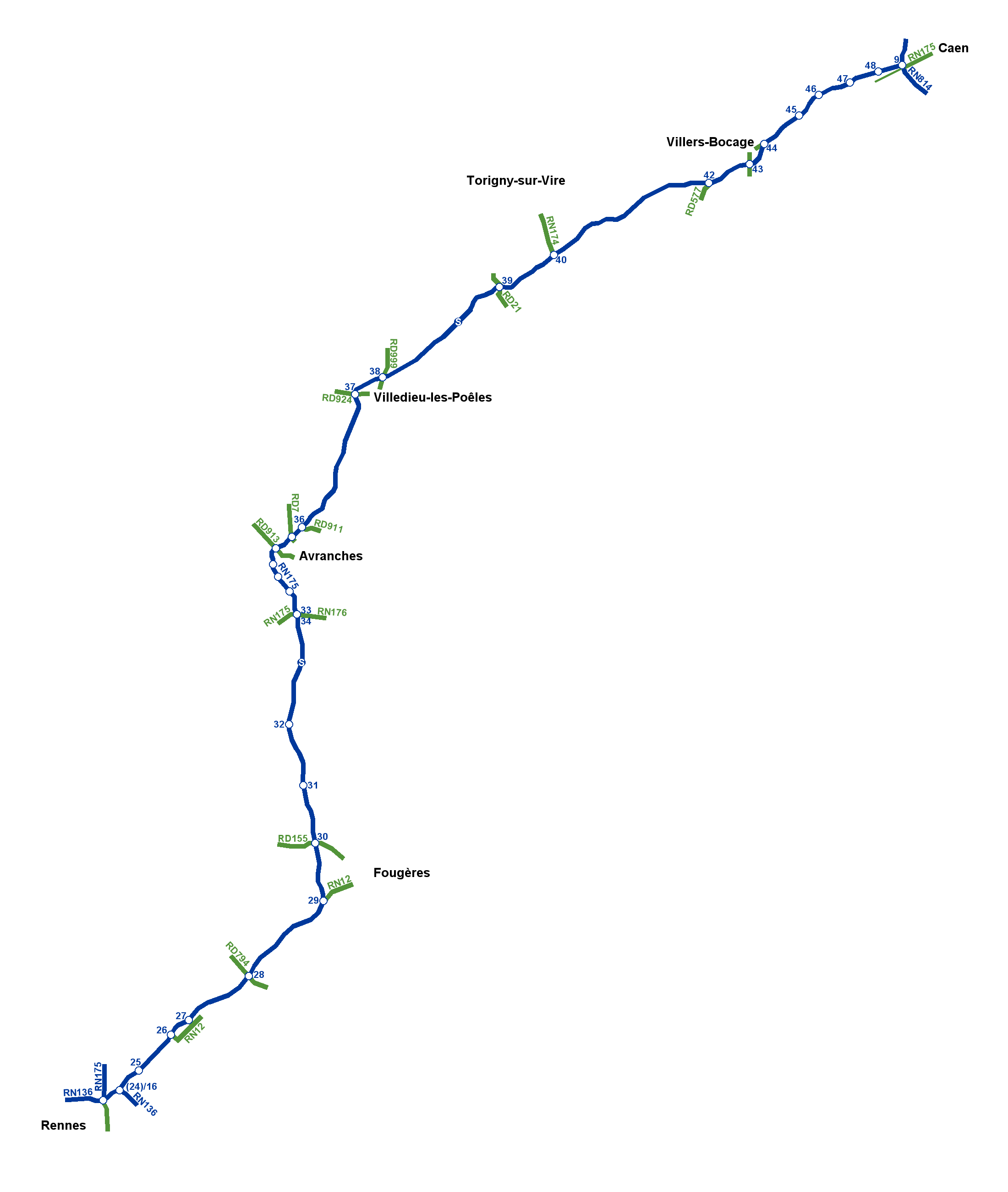 Author: Gregory Deryckère Source: Own work Date: 1st November 2006